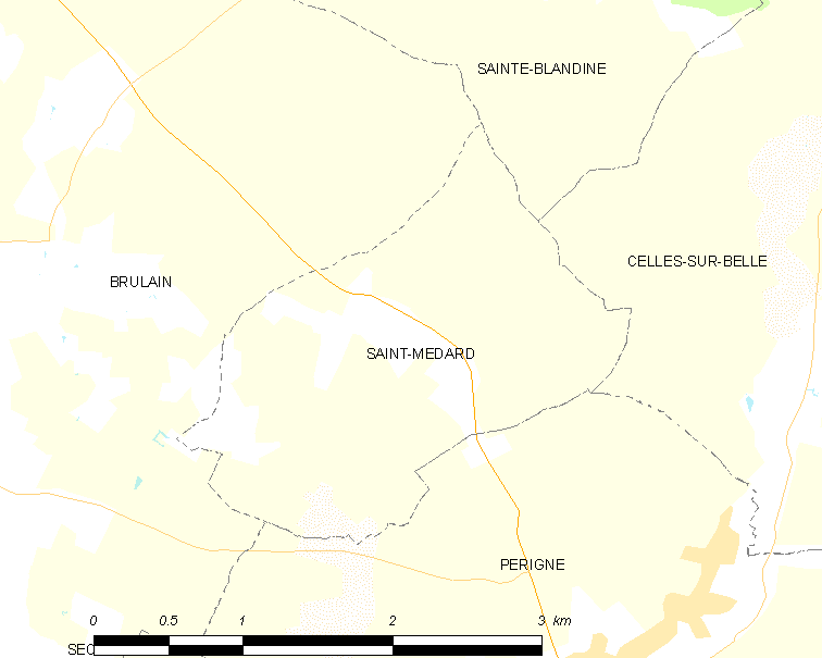 Map of French municipality Saint-Médard